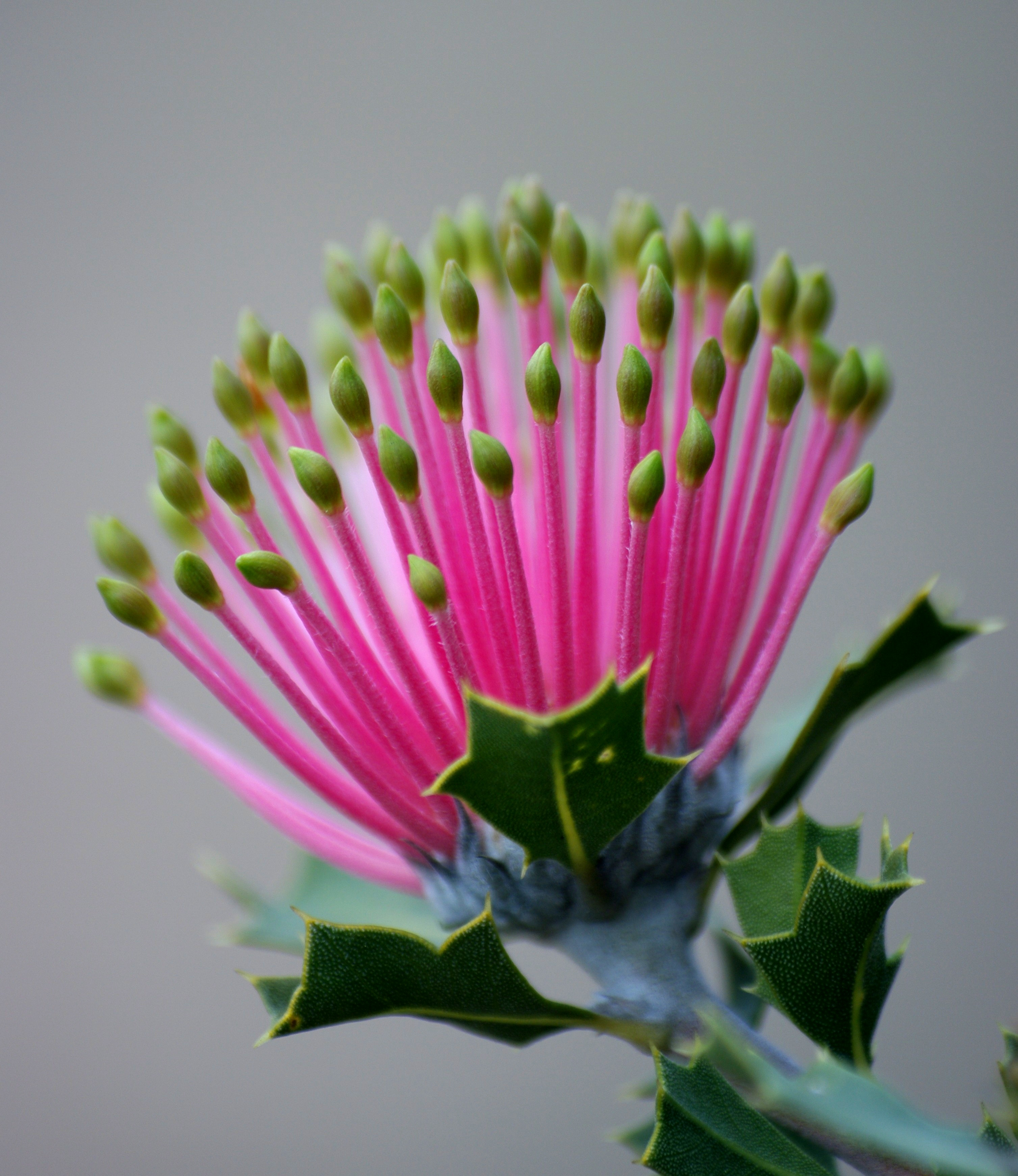 Banksia cunaeta -- Quariading Banksia or Matchstick Banksia "atypical" matchstick presentation photographed near the location that the type specimen was collected